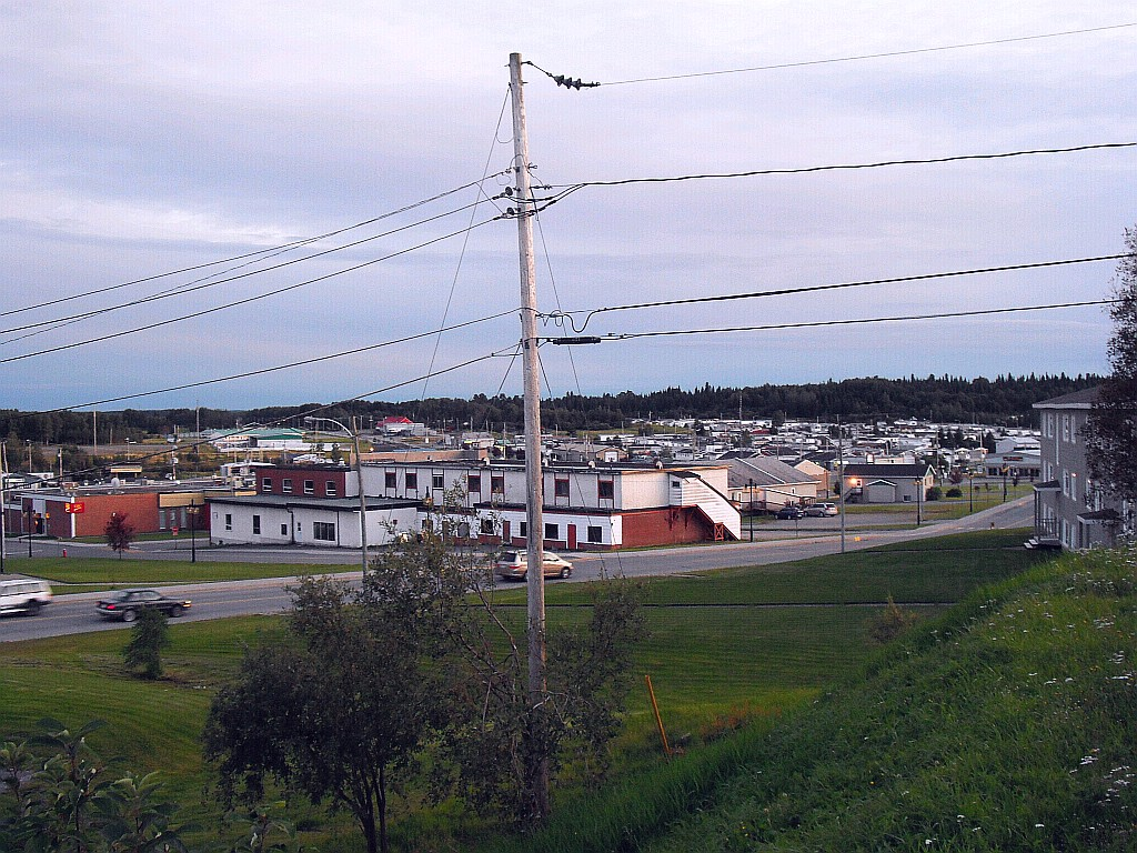 The town of Lebel-sur-Quévillon, Quebec. The motel in first plan was demolish in 2014.